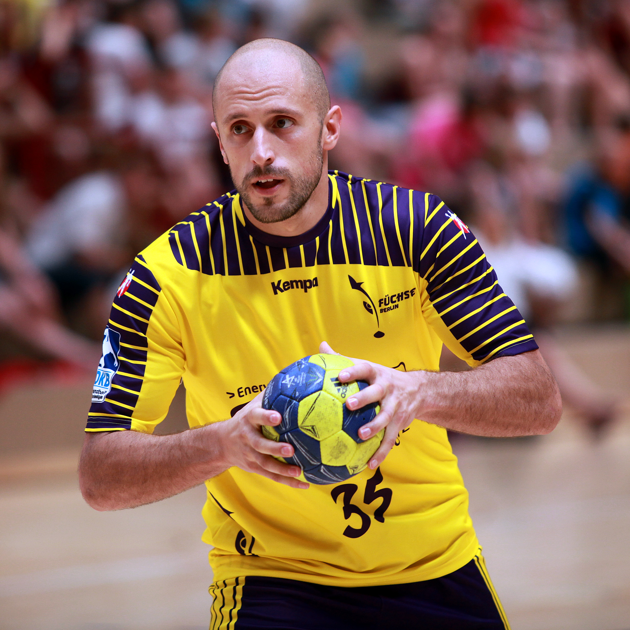 Konstantin Igropulo, Russian handball player from Füchse Berlin on August 20th, 2012 in Ehingen (Germany), during the EVFH-Cup (formerly known as Schlecker Cup).